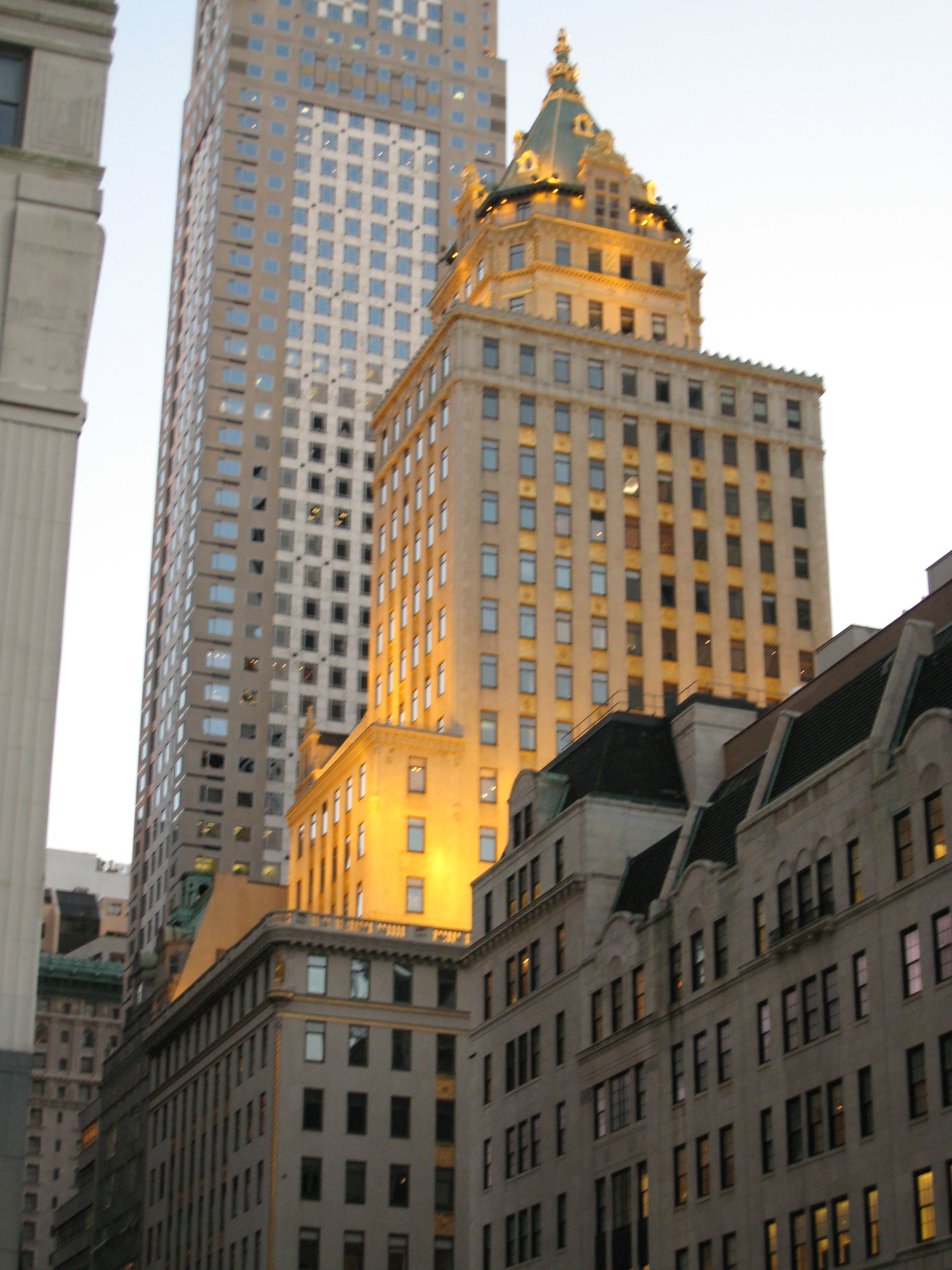 The Crown Building in New York, an Iconic fixture located at 57th Street and Fifth Avenue.